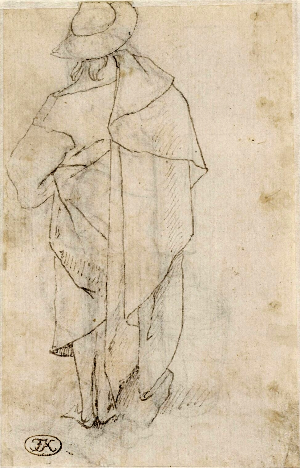 Reverse of a two-sided drawing. For the front see File:Circle of Pieter Bruegel (I) recto 02.jpg.